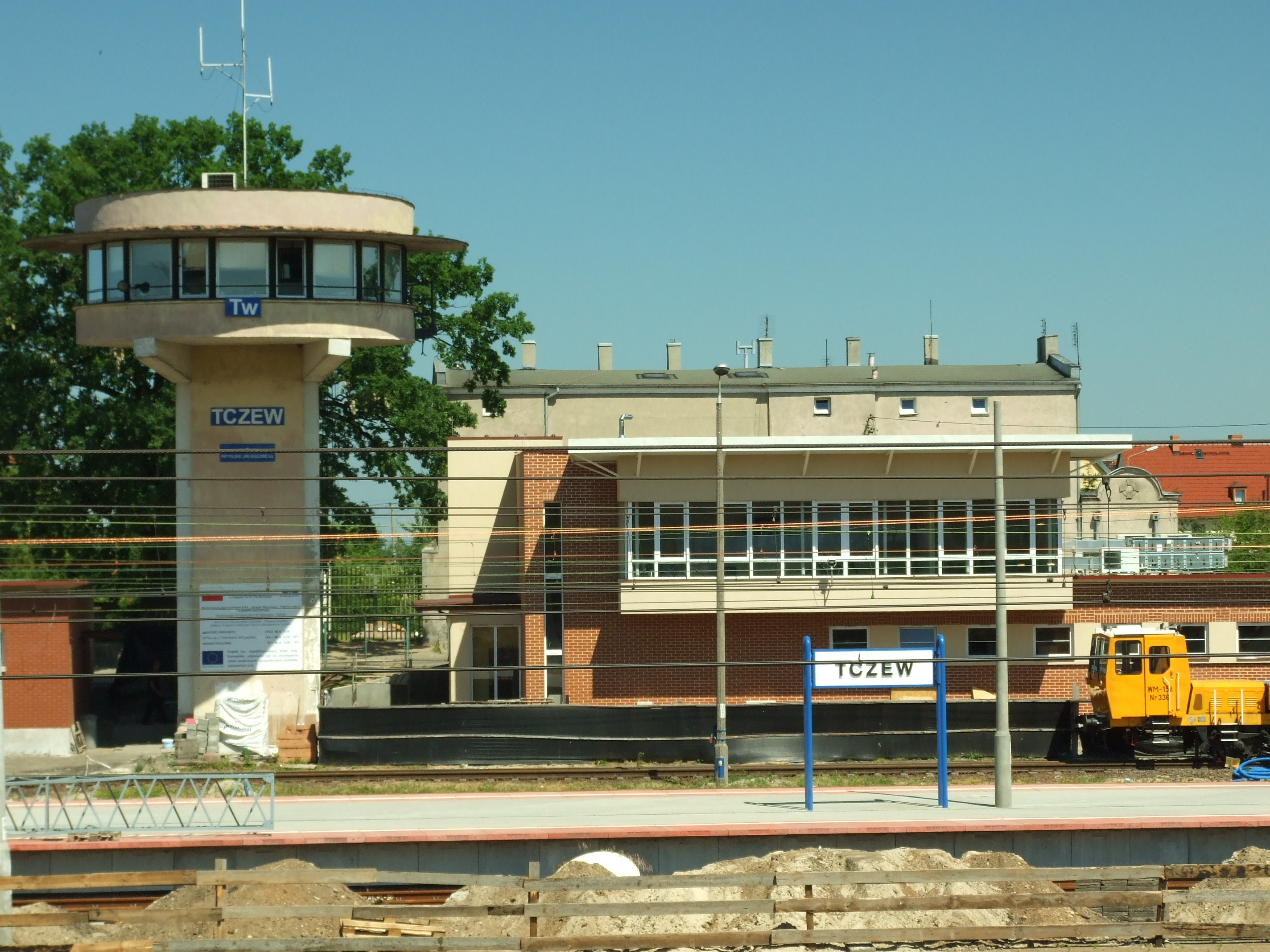 Control center of Tczew train station, Pomorskie voivodship, Poland. Construction works are not yet finish, as can be seen in the foreground